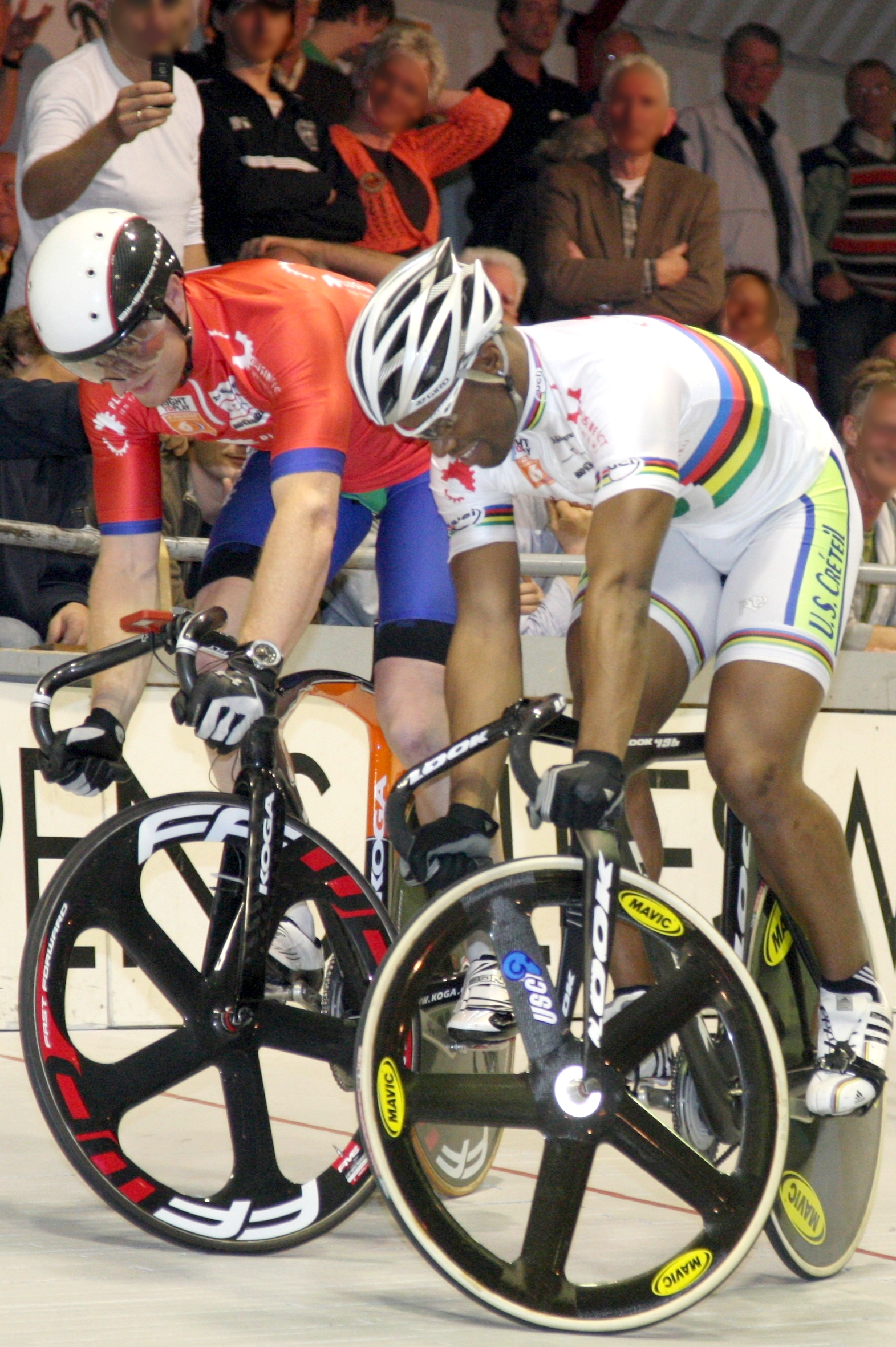 Sur Place. Yondi Schmidt (NL) and Sprint World Champion Grégory Baugé (FRA)